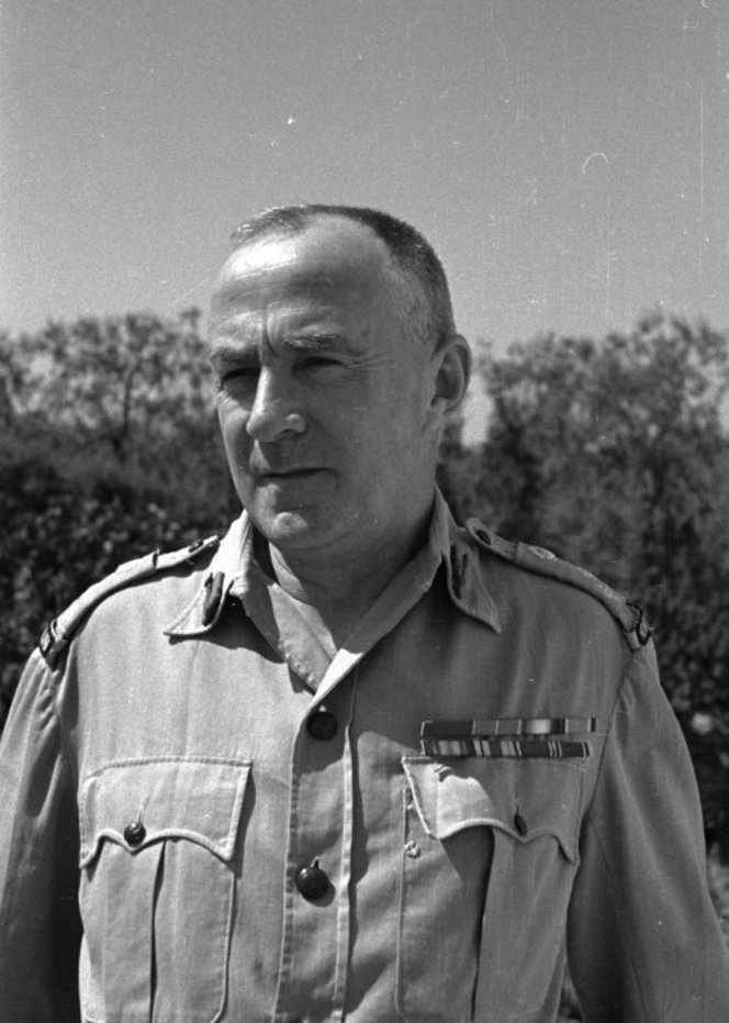 Head and shoulders portrait of William George Stevens. Bull, George Robert, 1910-1966. New Zealand. Department of Internal Affairs. War History Branch :Photographs relating to World War 1914-1918, World War 1939-1945, occupation of Japan, Korean War, and Malayan Emergency. Ref: DA-05884-F. Alexander Turnbull Library, Wellington, New Zealand. George Bull was an official photographer of the NZ Military Forces and thus any copyright in this work may rest with the Crown. The work has licenced for re-use under CC 3.0. Refer to source website webpage on copyright information